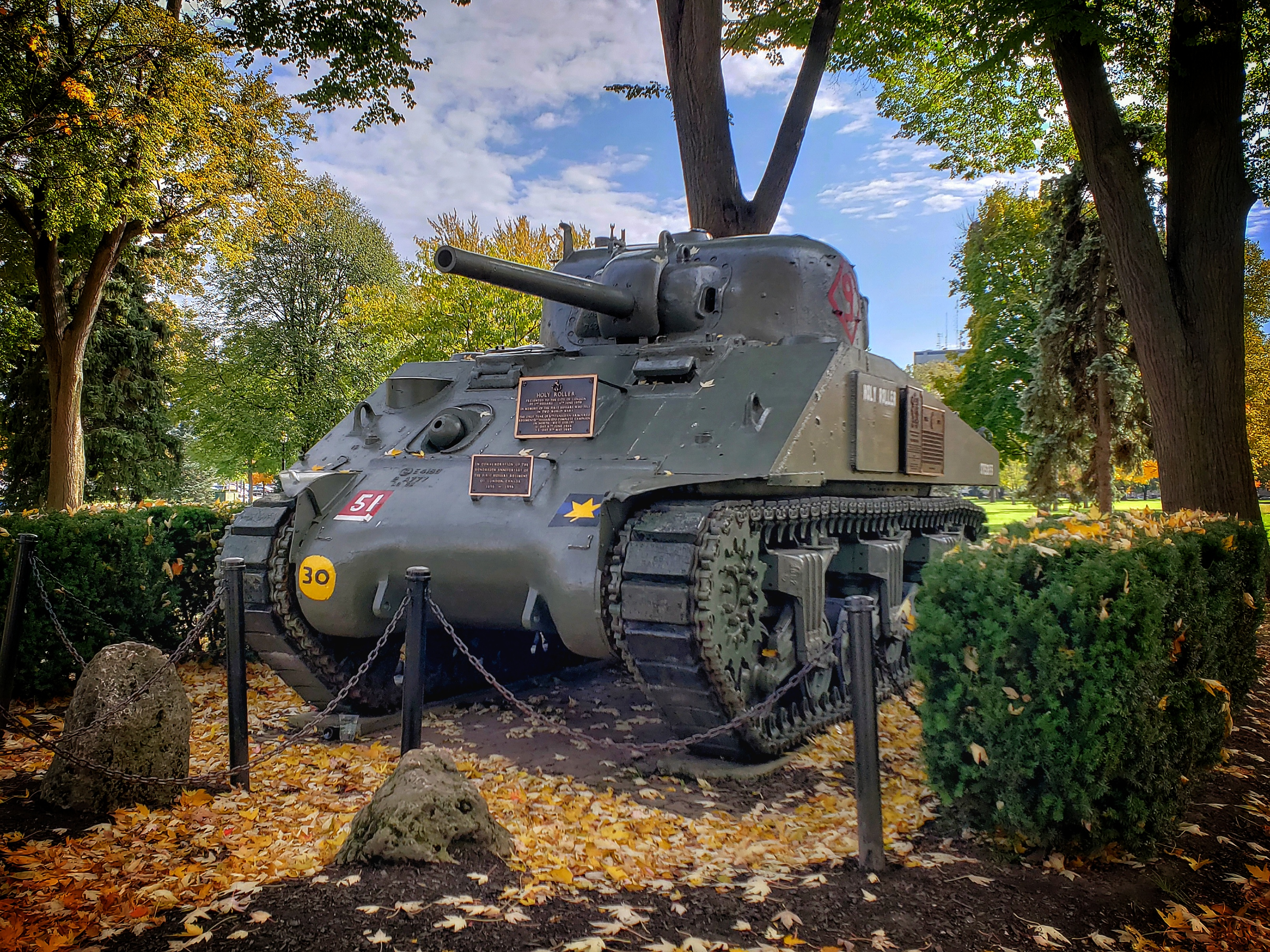 Picture of Holy Roller. It is preserved at Victoria Park in London, ON. Taken Oct. 30, 2018